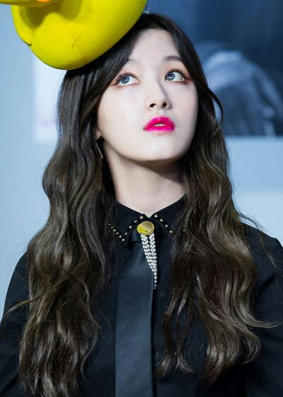 Oh Seung-hee at Youngpoong Bookstore Gangnam Station Store Fan Sign Event on March 03, 2018.